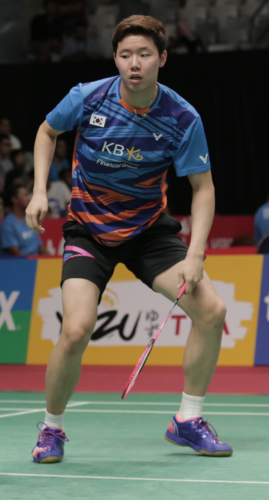 Seo Seung-jae in action at Indonesia Masters 2018